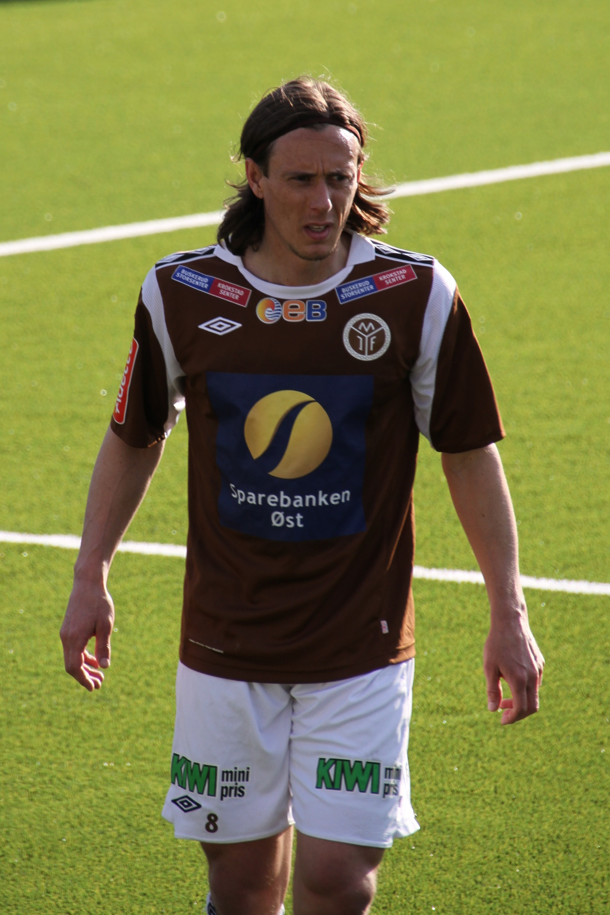 Mjøndalen (Norway) player in match against IK Start. May 20, 2012.